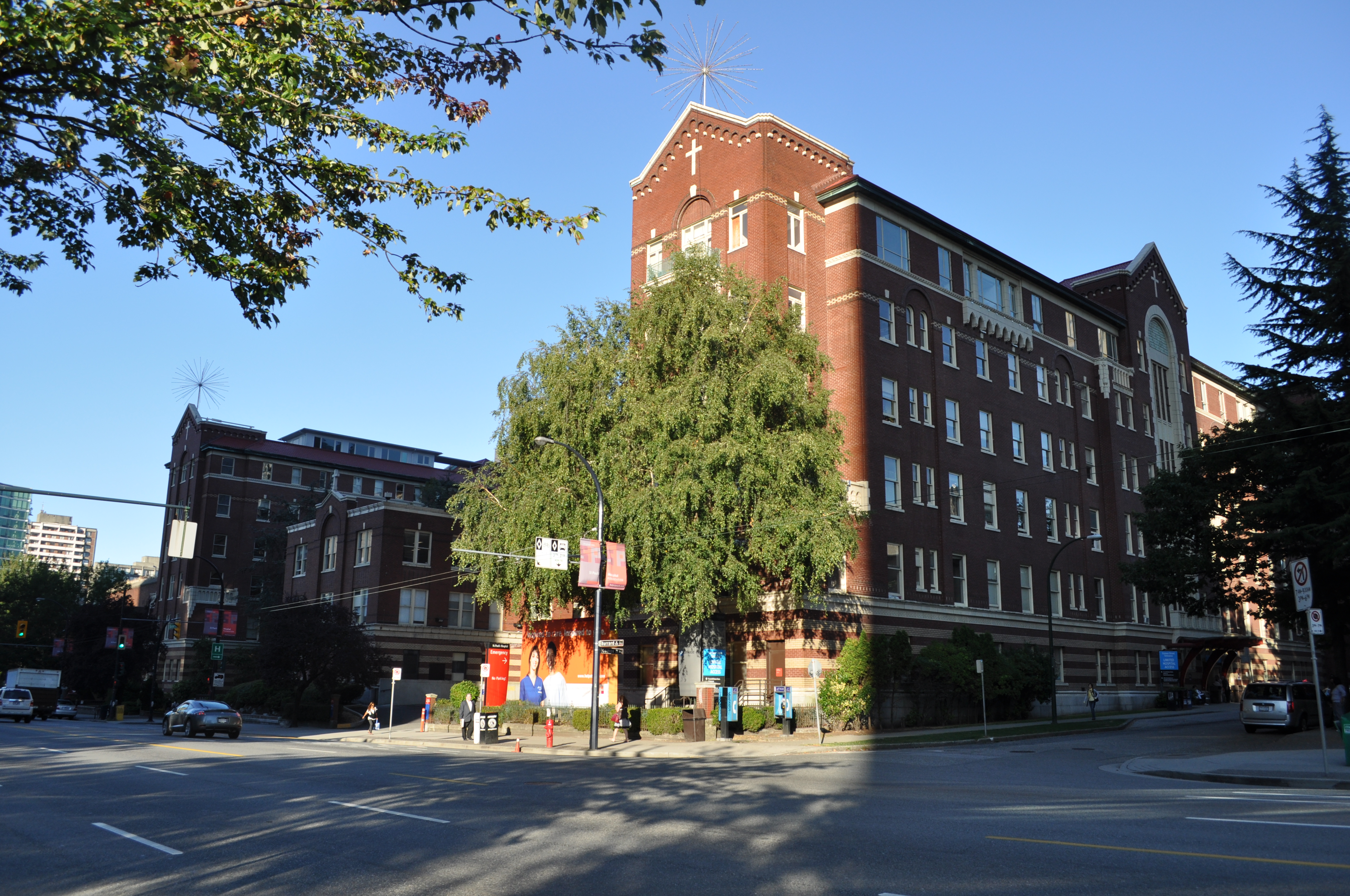 St. Paul's Hospital, Vancouver, BC.